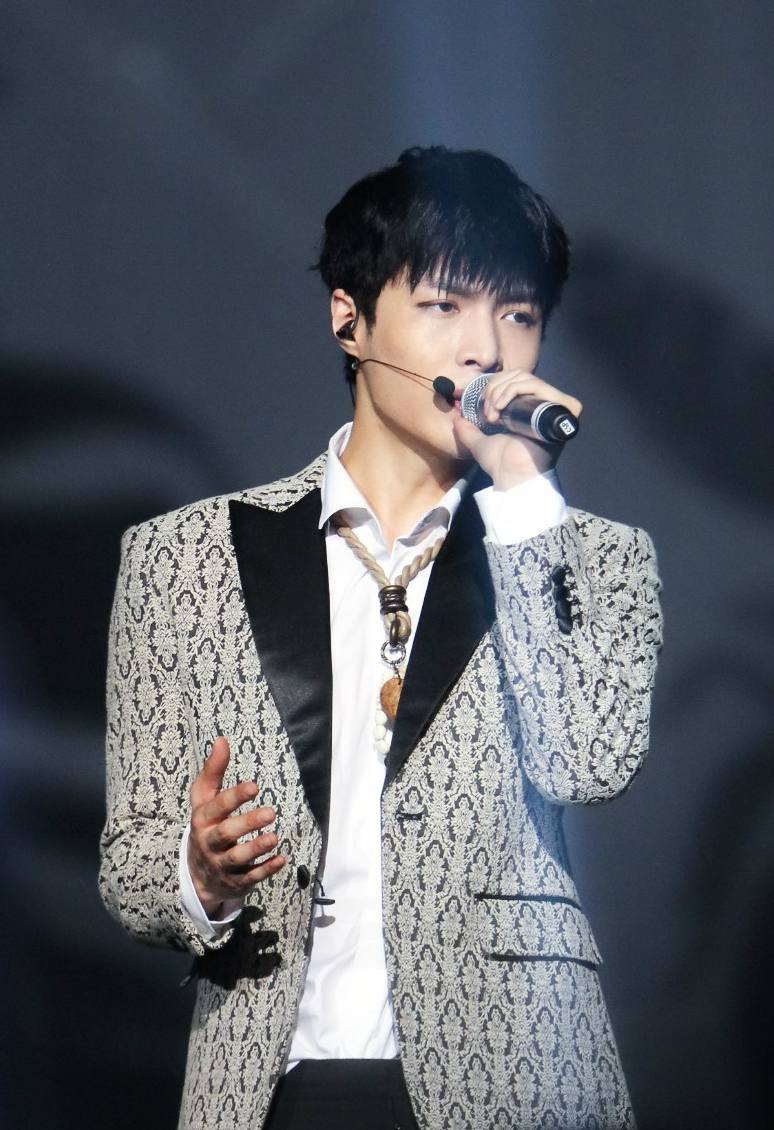 Lay Zhang at the EXO The Lost Planet in Singapore on August 23, 2014.